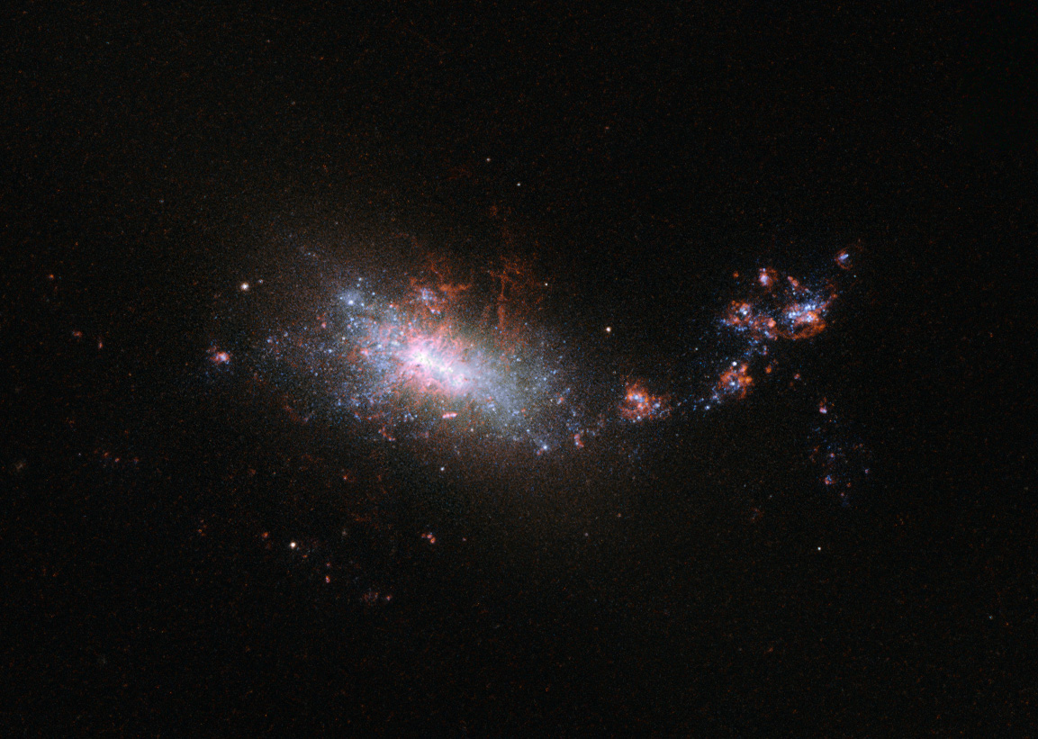 This dramatic image shows the NASA/ESA Hubble Space Telescope’s view of dwarf galaxy known as NGC 1140, which lies 60 million light-years away in the constellation of Eridanus. As can be seen in this image NGC 1140 has an irregular form, much like the Large Magellanic Cloud — a small galaxy that orbits the Milky Way. This small galaxy is undergoing what is known as a starburst. Despite being almost ten times smaller than the Milky Way it is creating stars at about the same rate, with the equivalent of one star the size of the Sun being created per year. This is clearly visible in the image, which shows the galaxy illuminated by bright, blue-white, young stars. Galaxies like NGC 1140 — small, starbursting and containing large amounts of primordial gas with way fewer elements heavier than hydrogen and helium than present in our Sun — are of particular interest to astronomers. Their composition makes them similar to the intensely star-forming galaxies in the early Universe. And these early Universe galaxies were the building blocks of present-day large galaxies like our galaxy, the Milky Way. But, as they are so far away these early Universe galaxies are harder to study so these closer starbursting galaxies are a good substitute for learning more about galaxy evolution . The vigorous star formation will have a very destructive effect on this small dwarf galaxy in its future. When the larger stars in the galaxy die, and explode as supernovae, gas is blown into space and may easily escape the gravitational pull of the galaxy. The ejection of gas from the galaxy means it is throwing out its potential for future stars as this gas is one of the building blocks of star formation. NGC 1140’s starburst cannot last for long.